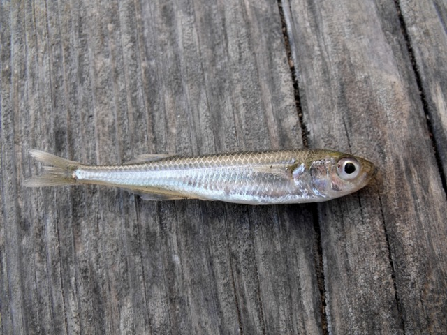 Atherina boyeri sampled in a brackish lagoon in Grosseto province, Tuscany, central Italy. Photo by Massimiliano Marcelli.